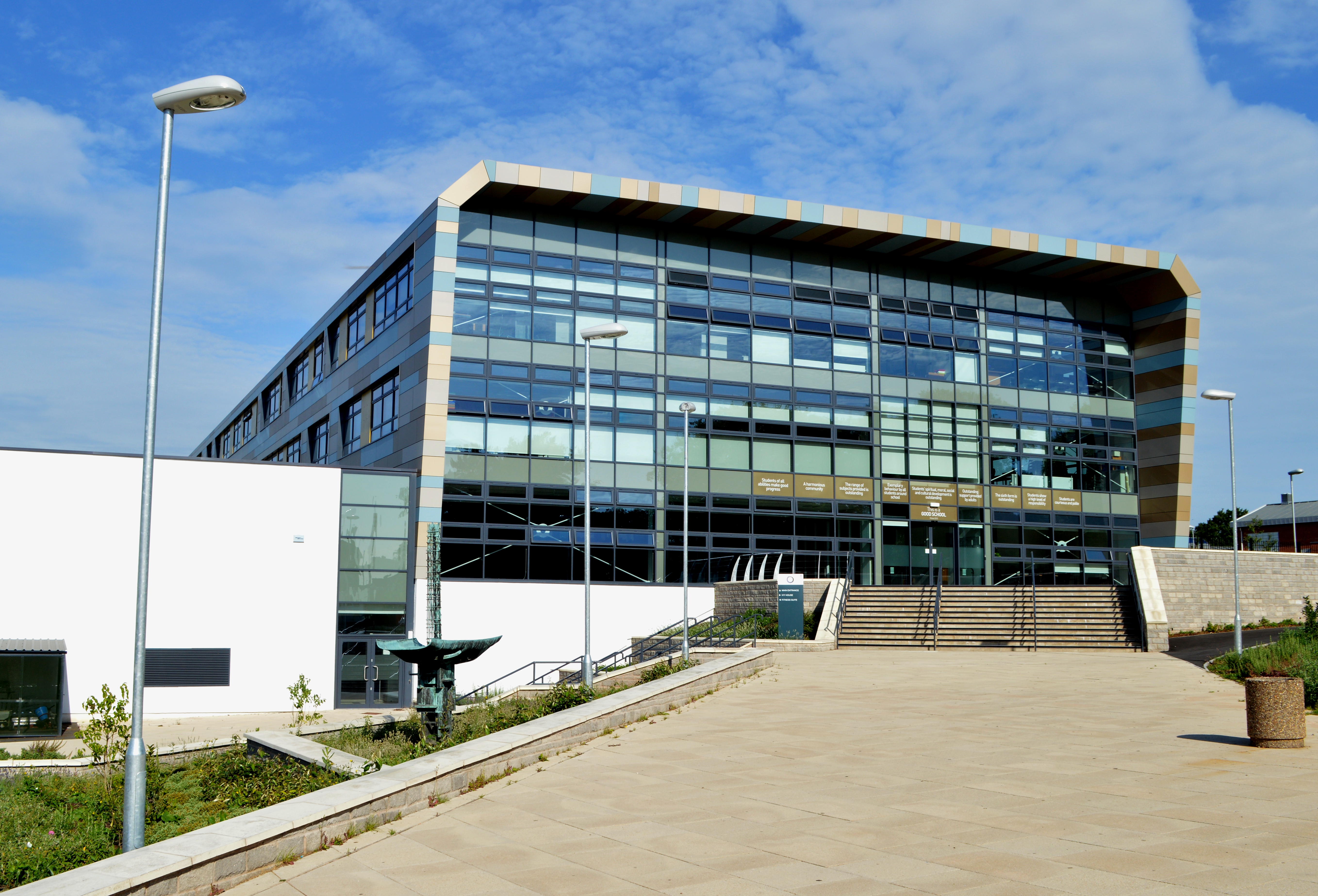 Derby Moor Community Sports College buildings on Moorway Lane Littleover Derby. Newly complete, August 2013.